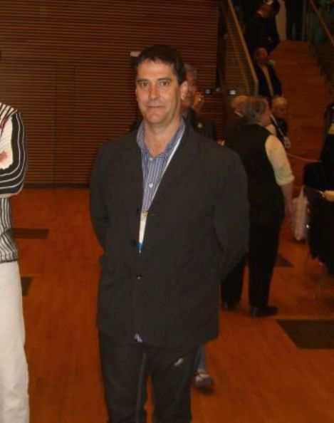 Photo of chess Grandmaster Lexy Ortega at Dresden Olympiad.